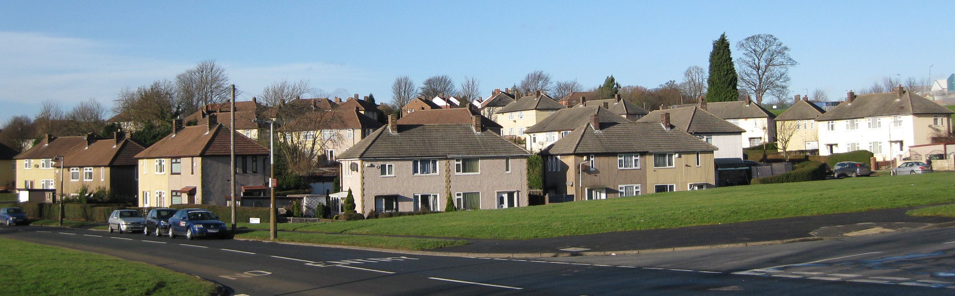 Houses on the Parkway, Seacroft, Leeds LS14